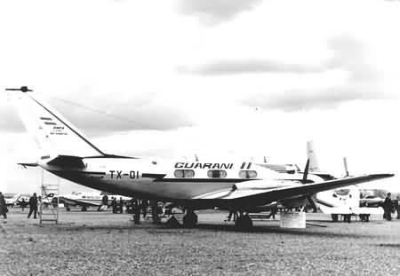 As with the rest of the pics that I've uploaded up to this time, I believe this is in the "Public Domain" because of its age (1966) and its presumed original source (the FMA, a government agency in Argentina). This pic was obtained from the website referenced here, so I'm crediting the contributor (have no means of contacting him to further check sources or copyright). Original Caption: I.A. 50 Guarani II (TX-01 c/n 01) Argentine Air Force Photographed at Paris Air Show, Le Bourget, France, June 1966, source unknown (JOHAN VISSCHEDIJK COLLECTION, No. 3231) DescriptionIA 50 Guarani II. Multipurpose/transport turboprop plane. 1963. Sourceunknown (of the original picture, not this copy) Permissionunknown (I believe the original is in the Public Domain, but need to check) Other versionsunknown